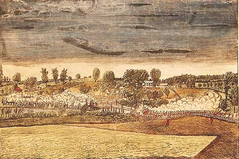 Cropped version of the engagement at the North Bridge in Concord, April 19, 1775. Plate III from "The Doolittle engravings of the battles of Lexington and Concord in 1775."